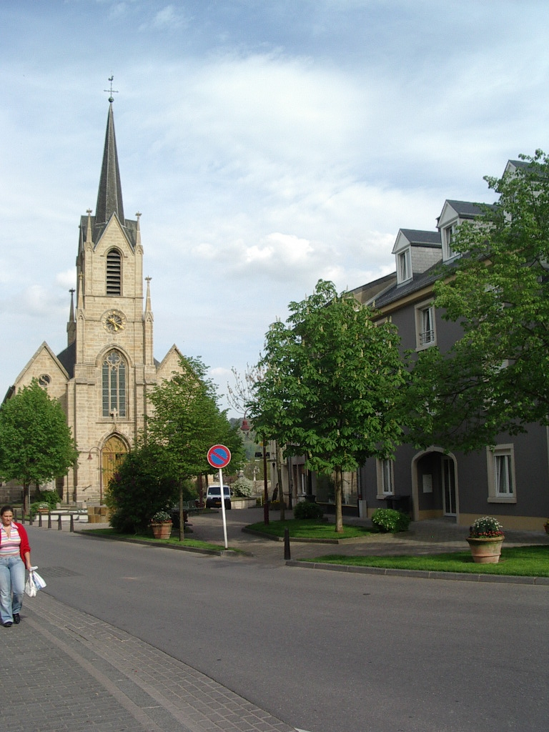 The neo-gothic church of Steinsel (village in Luxembourg) in early 2005.